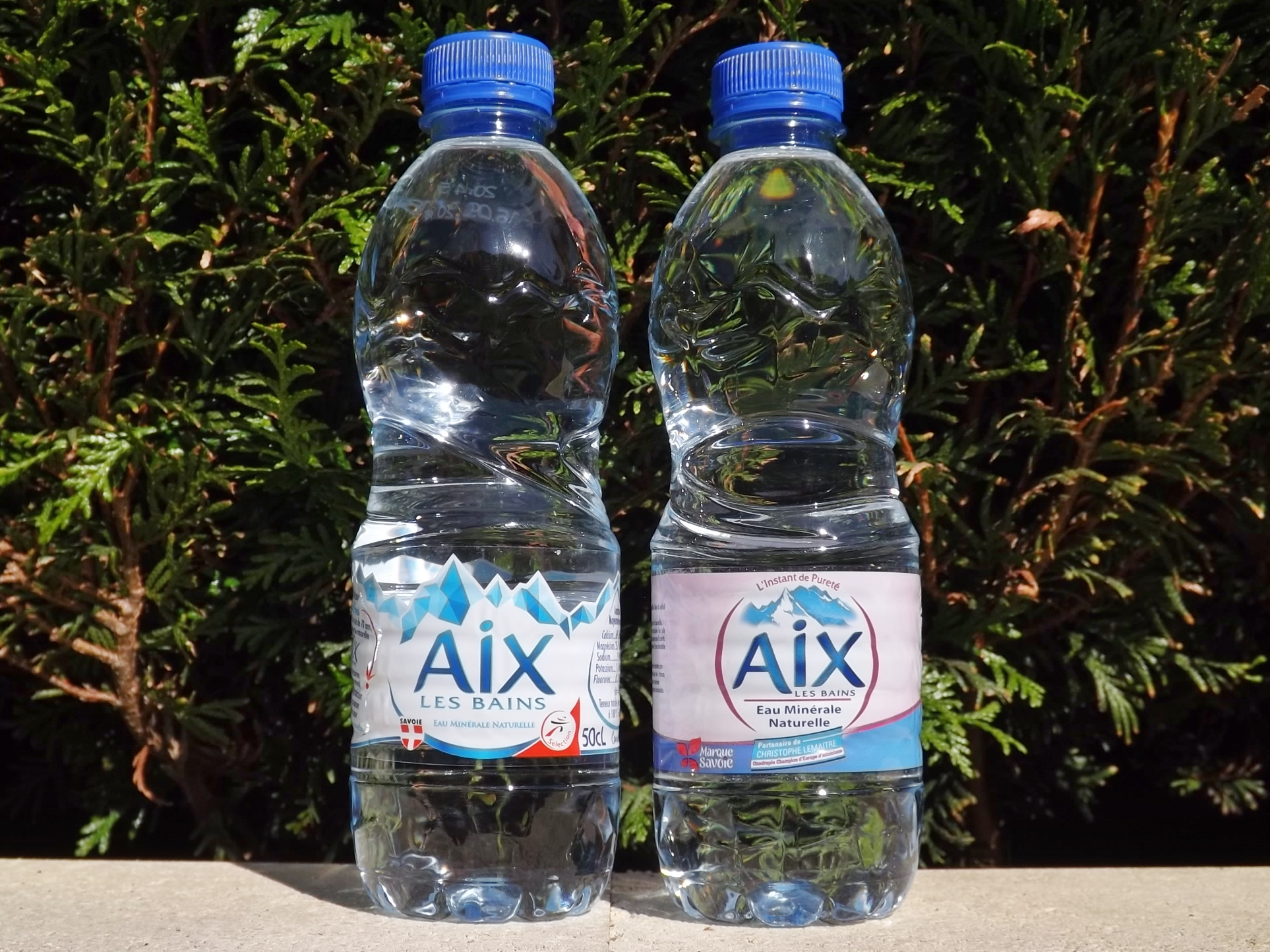 Sight of bottles of Aix-les-Bains natural mineral water, produced in Savoie, France.